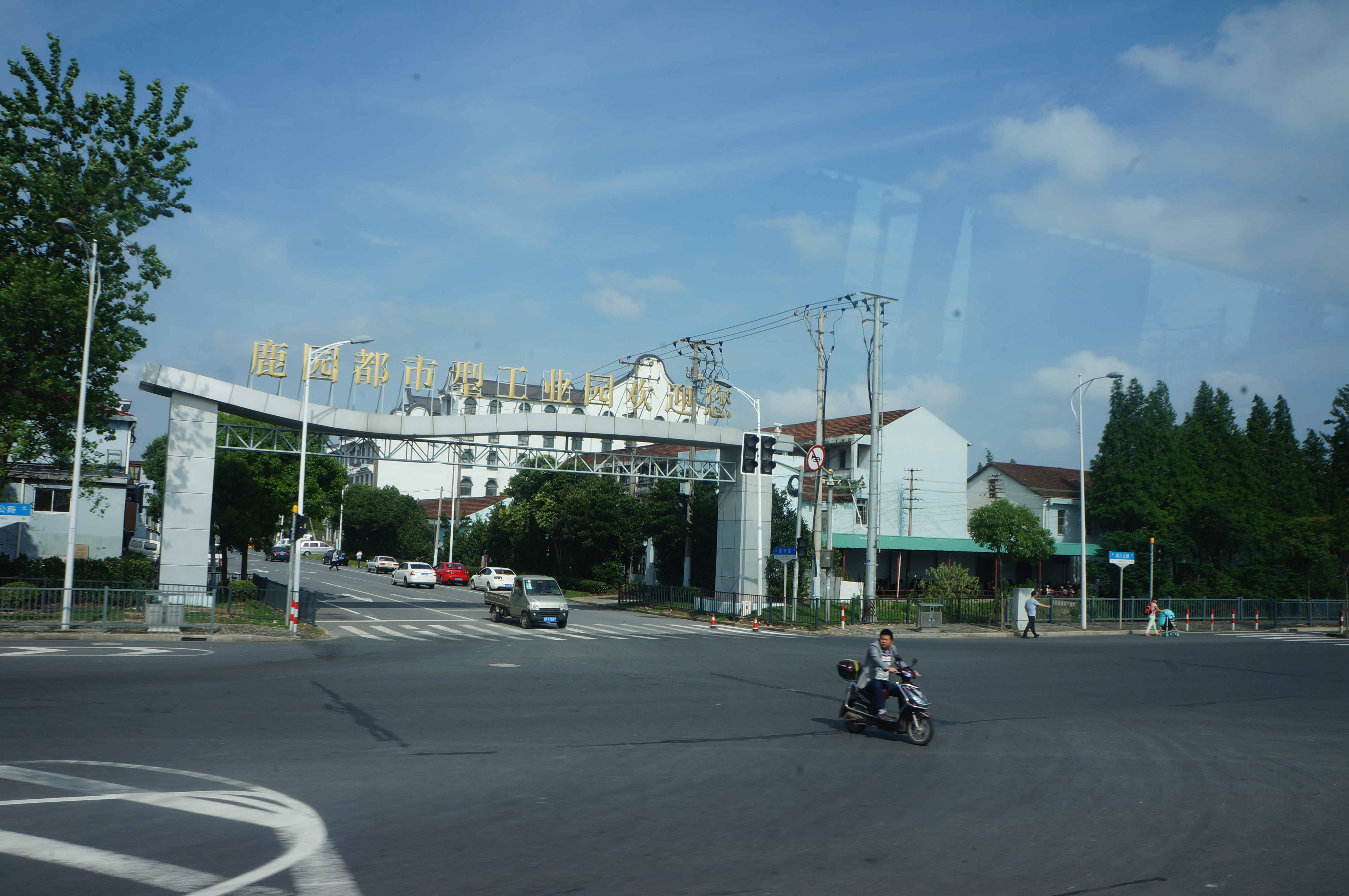 201706 Luyuan Industrial Park in Liuzao, Chuansha